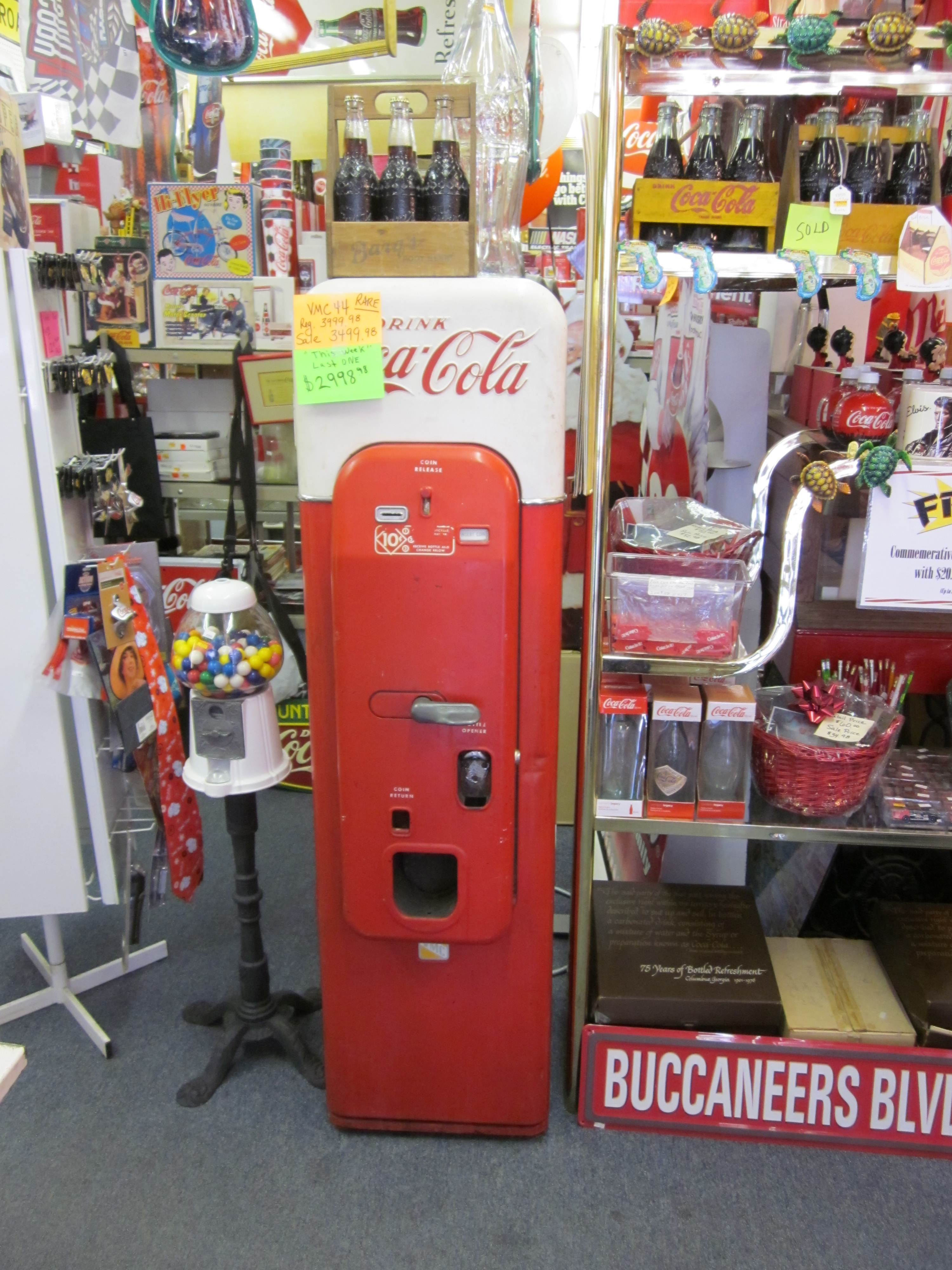 Fort Walton Beach, Florida Old vending machine in curio shop